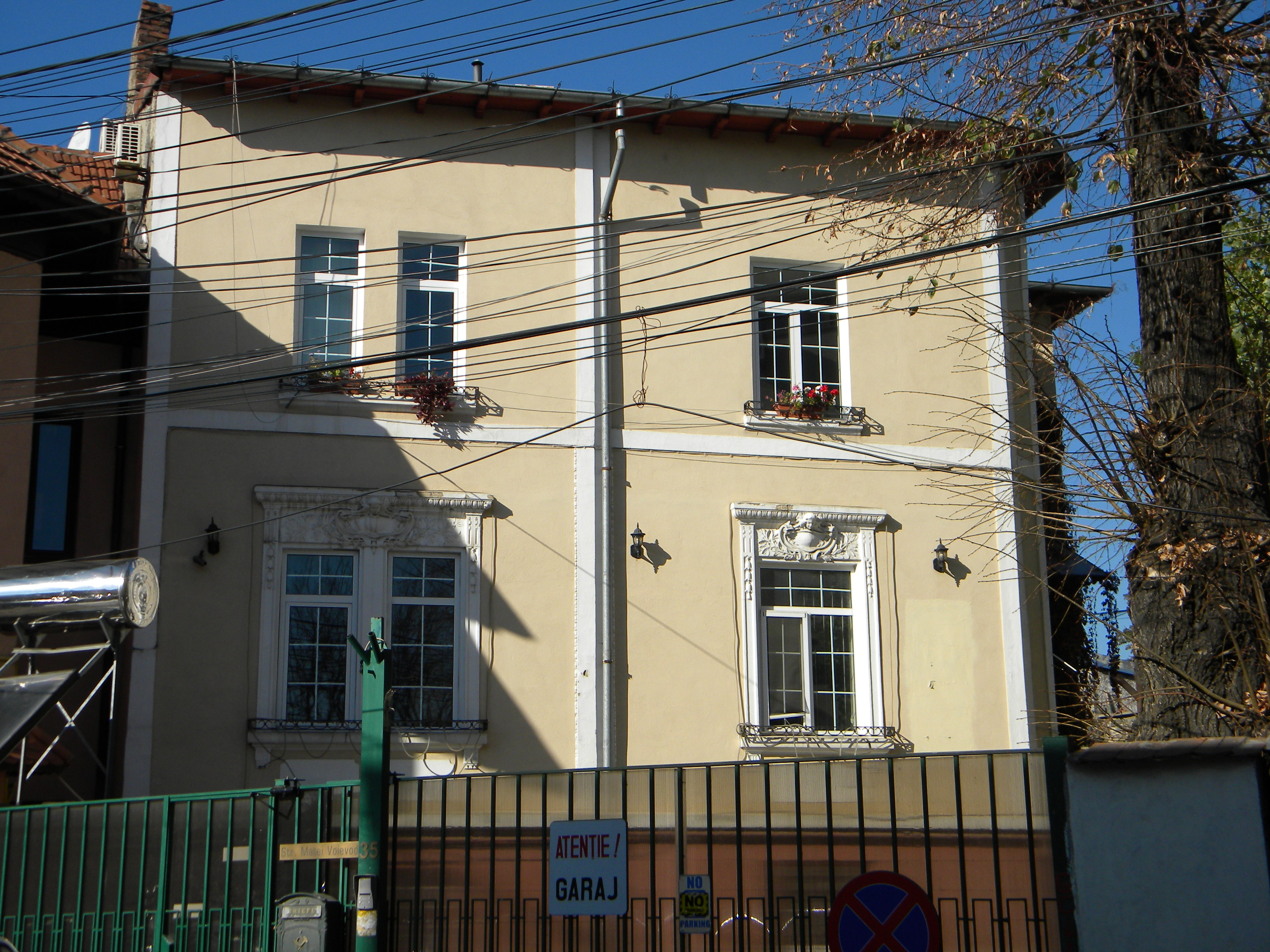 Bucuresti, Romania, Str. Matei Voievod nr. 35, sect. 2, (B-II-m-B-19168) (2)